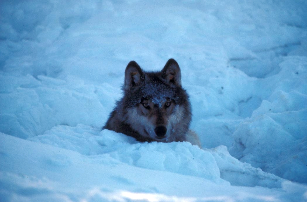 A lone wolf keeps a lookout for prey on Kenai National Wildlife Refuge in Alaska. (USFWS)